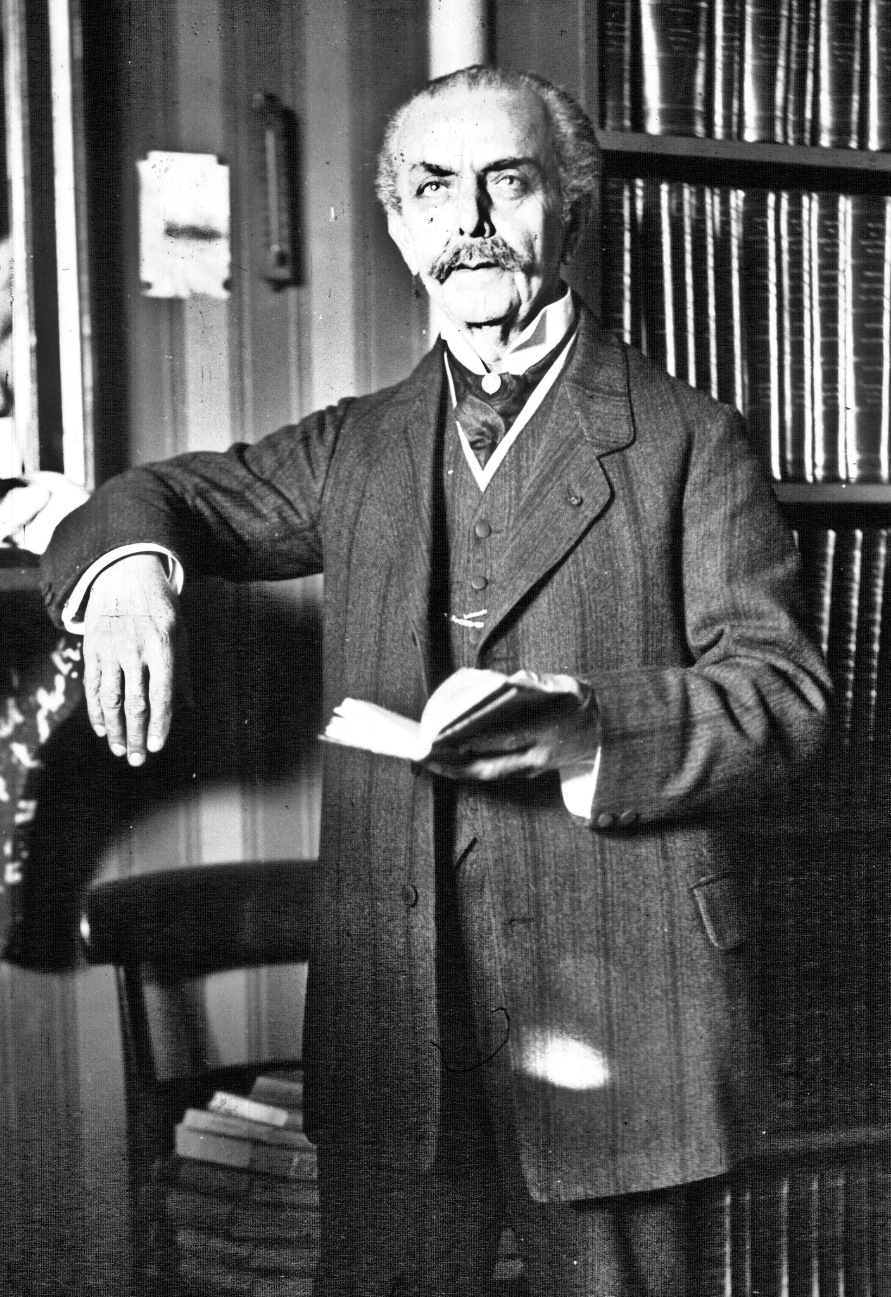 Depicted person: Henri Welschinger – French historian